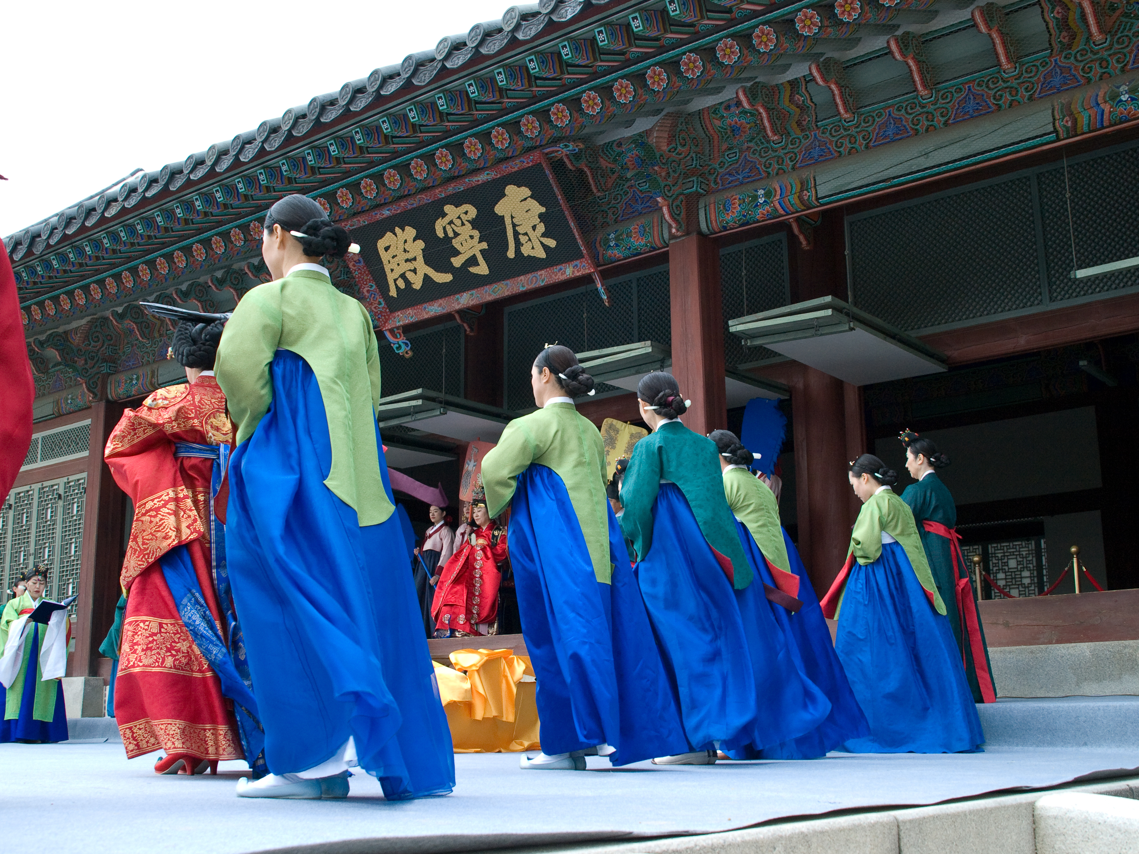 The 8th Chinjamrye Reconstruction Festival of Joseon dynasty was held at Gangnyeongjeon, Gyeongbokgung (royal palace) located in Seoul, South Korea. Chinjamrye was a big royal court event during Joseon dynasty for queens to encourage silk production to people. Queens relegated the event and represented to raise silkworms along with all well known ladies among royalty and nobility.